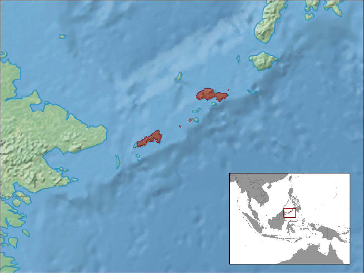 geographic distribution of Brachymeles vermis